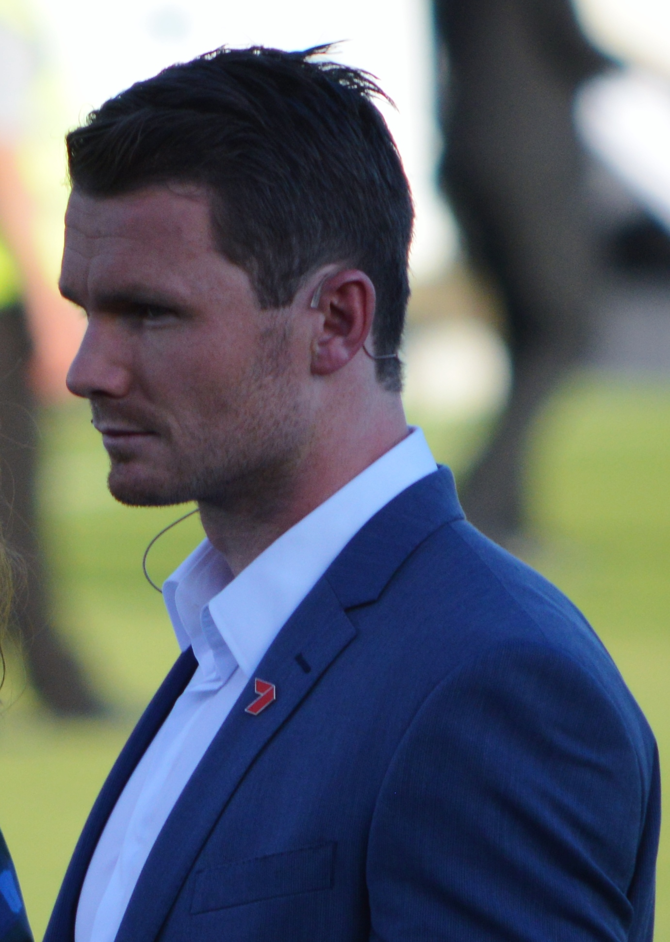 Patrick Dangerfield appearing on Network 7's coverage of the inaugural AFL Women's match in February 2017.